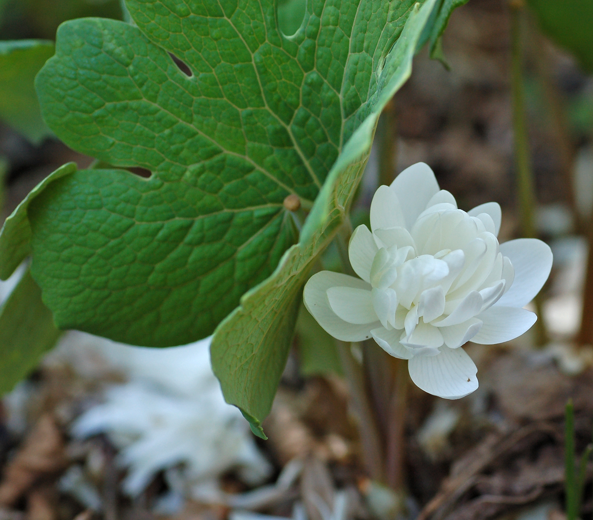 Photograph of a flower of the Bloodrooten (Sanguinaria canadensis en ) plant. Photo taken at the Mt. Cuba Center where it was identified.